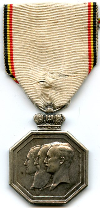 Centenary of National Independence Commemorative Medal 1830-1930 (Belgium)